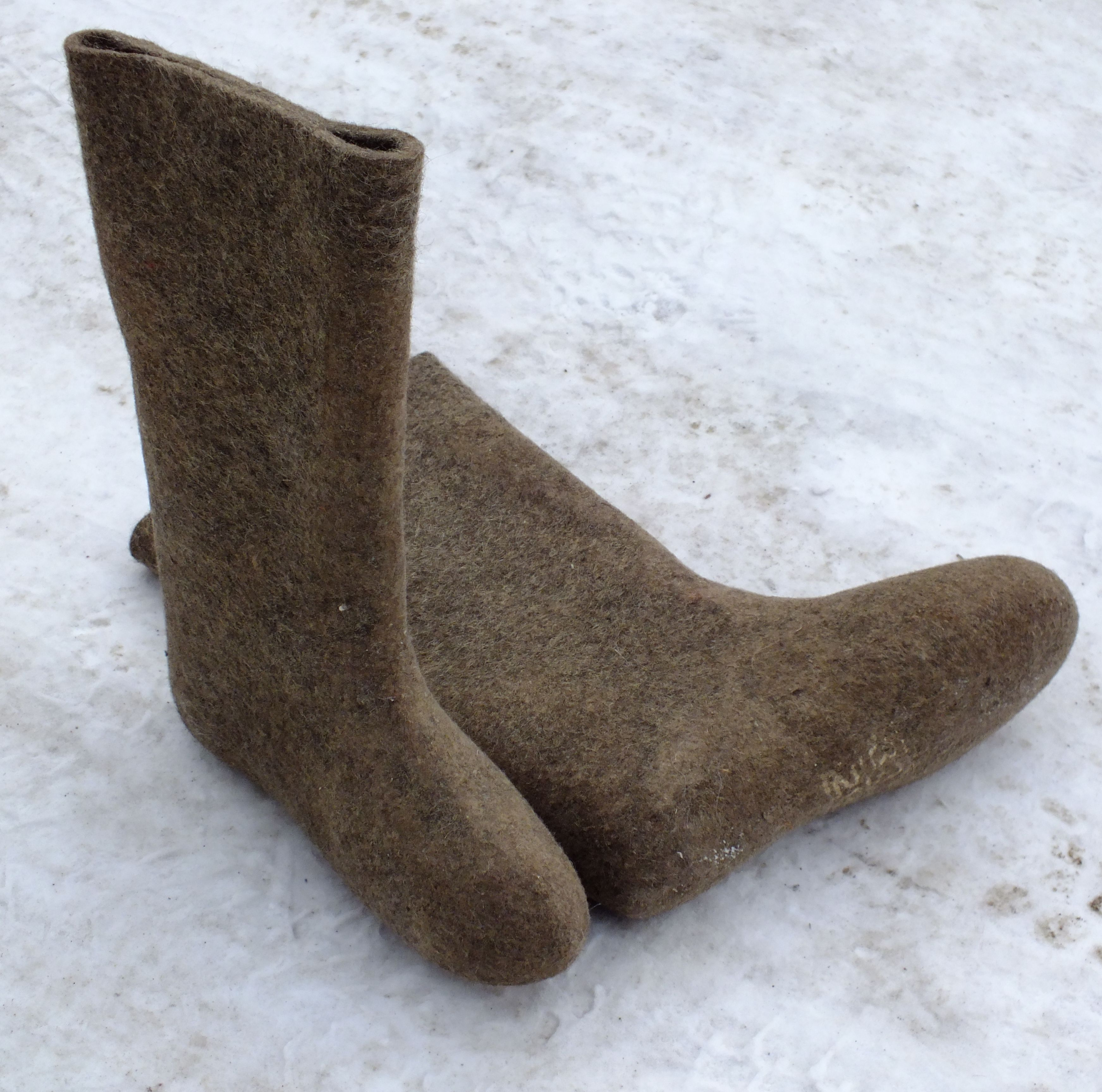 Valenki